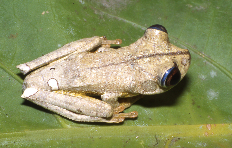 Hypsiboas geographicus